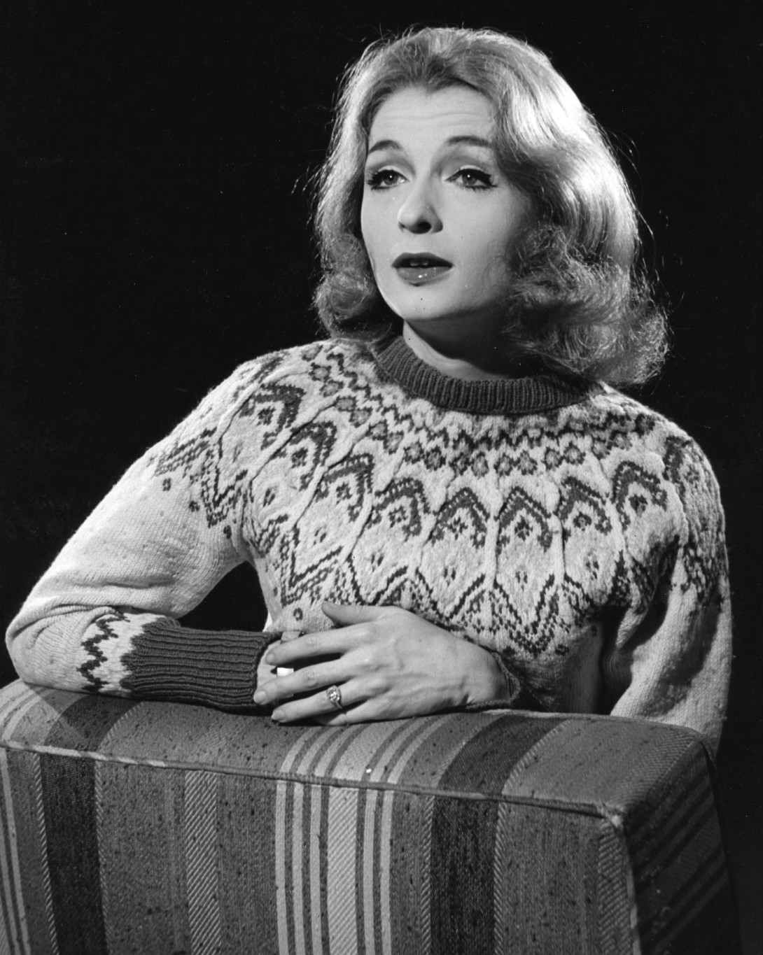 Photo of actress Carrie Nye from the Broadway play Mary, Mary.